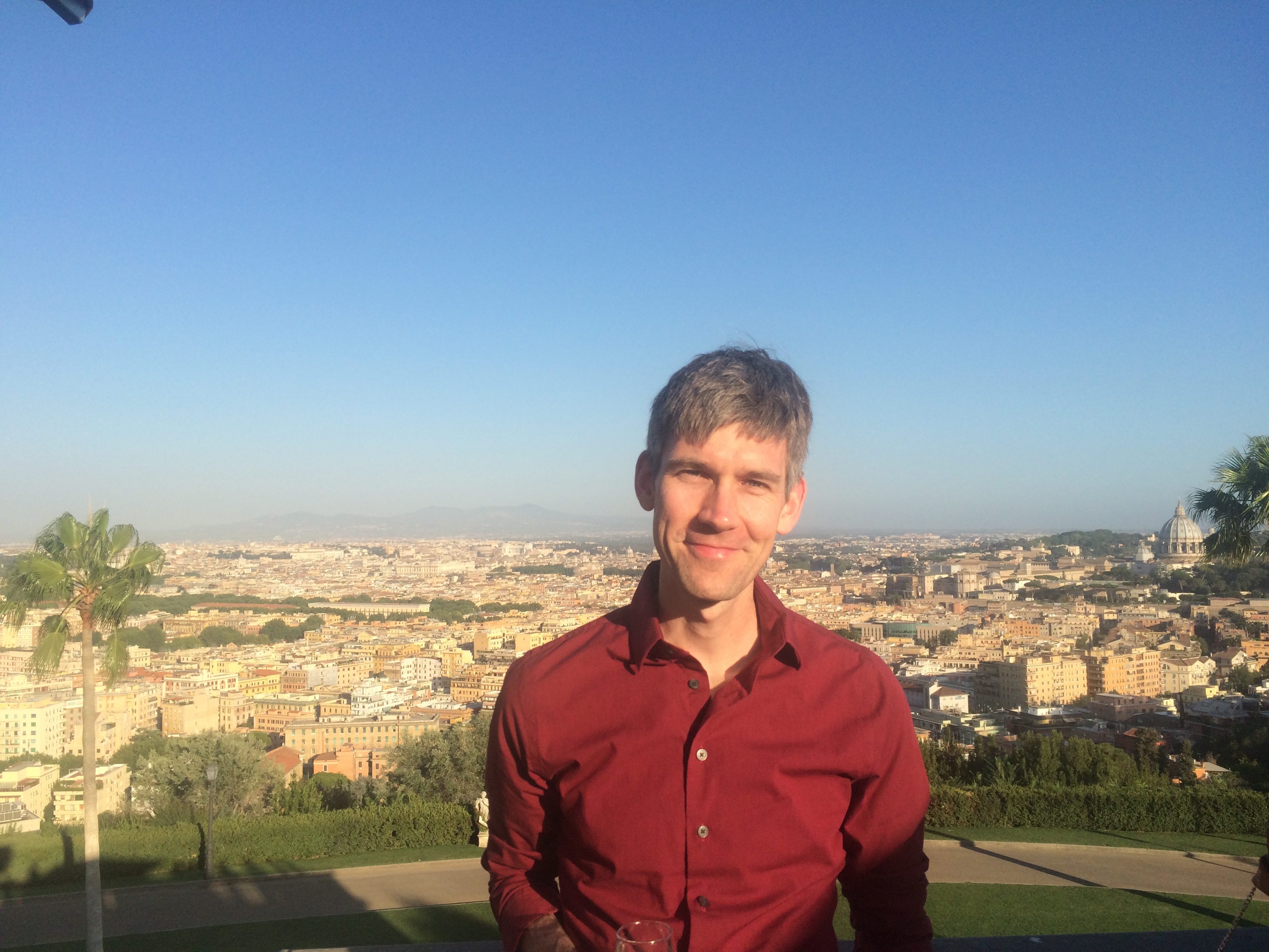 Sam Kean